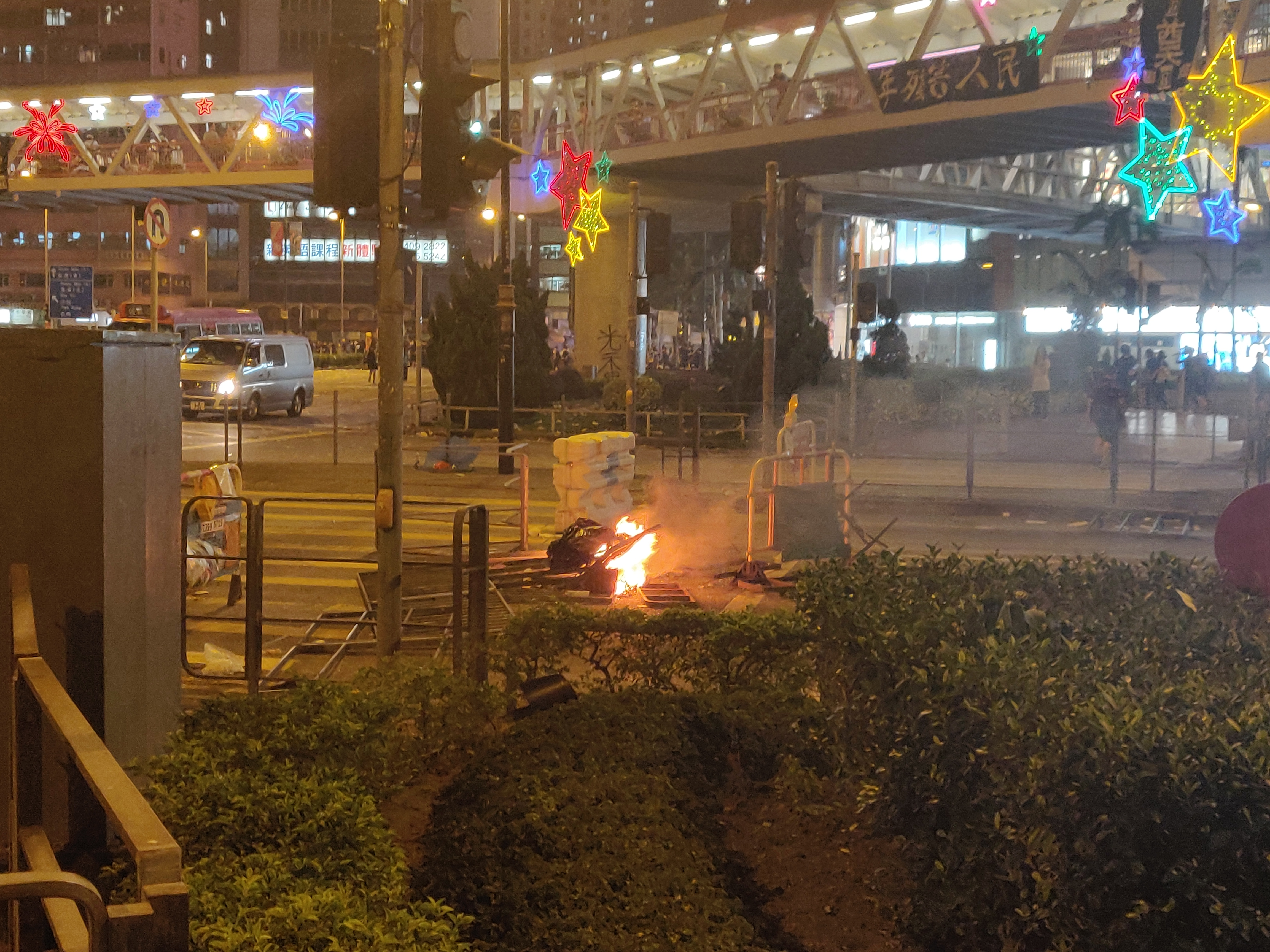 Demonstrators setting fire on barricades to stop police advancement.